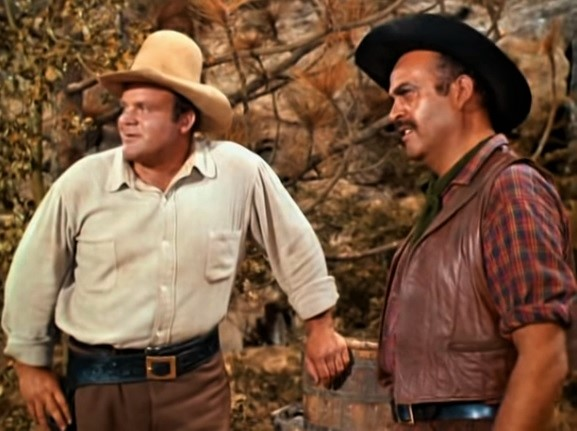 Dan Blocker (left) & Rodolfo Hoyos Jr. in the TV-series Bonanza, episode The Ape (cropped screenshot)